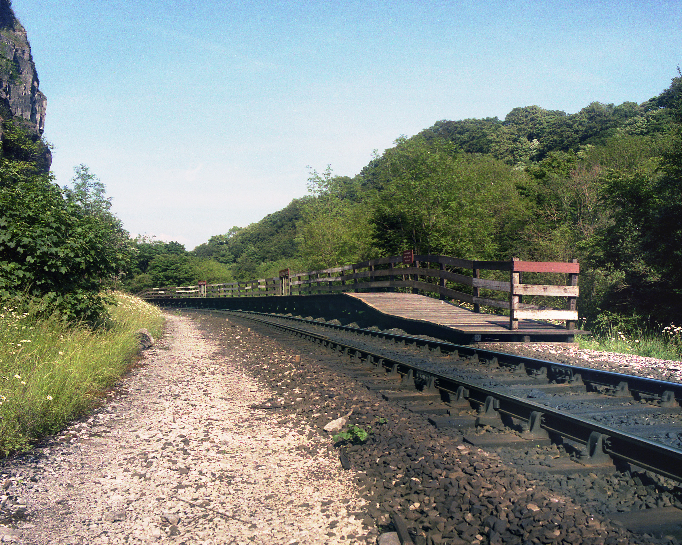 Chee Dale Halt as taken 2 years after closure. Note the station signs are still present.